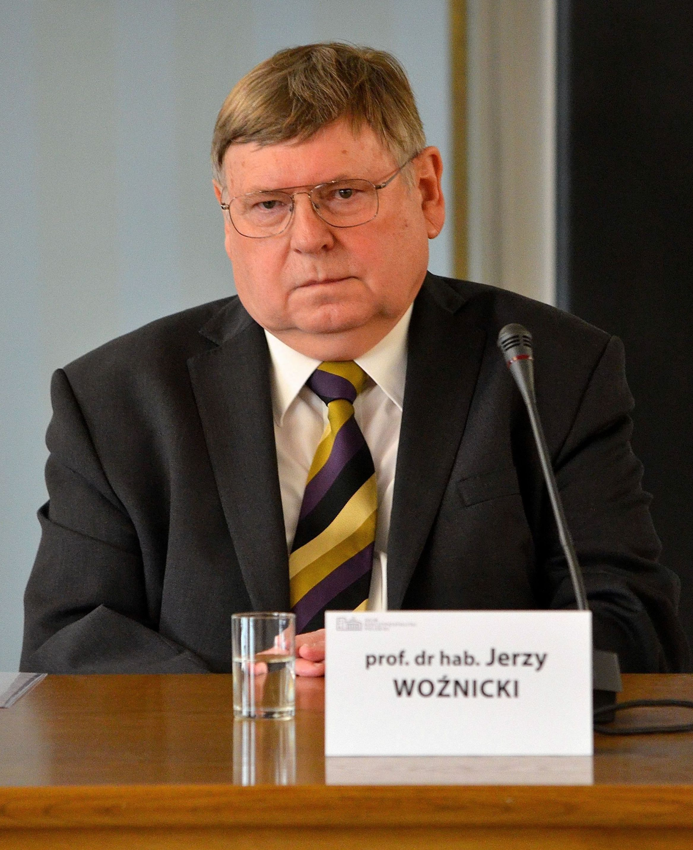 Professor Jerzy Woźnicki. Conference "Science and higher education – challenges of contemporary times" in the Polish Sejm